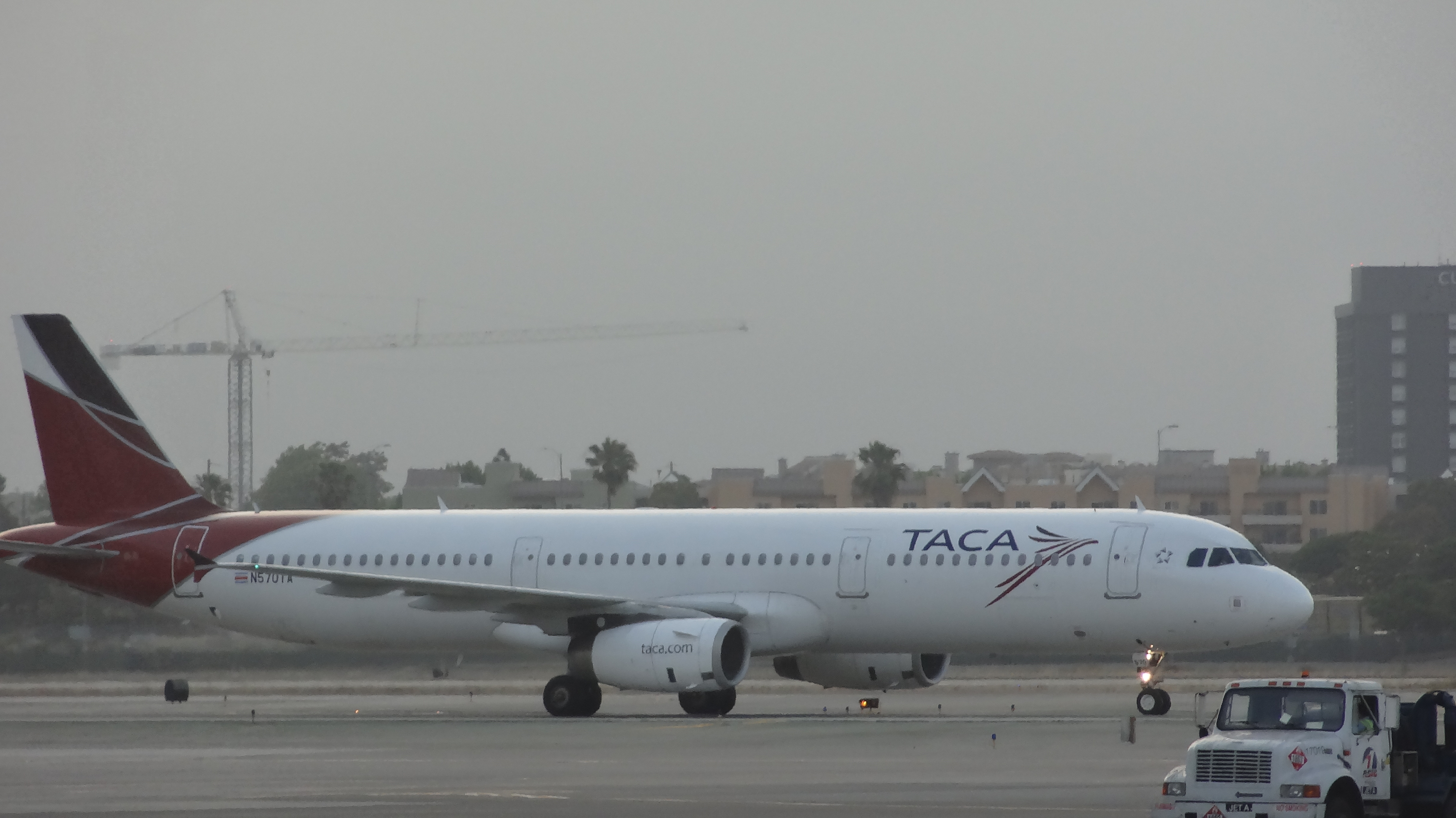 TACA Airlines A321 landing in Los Angeles from San Salvador (SAL).